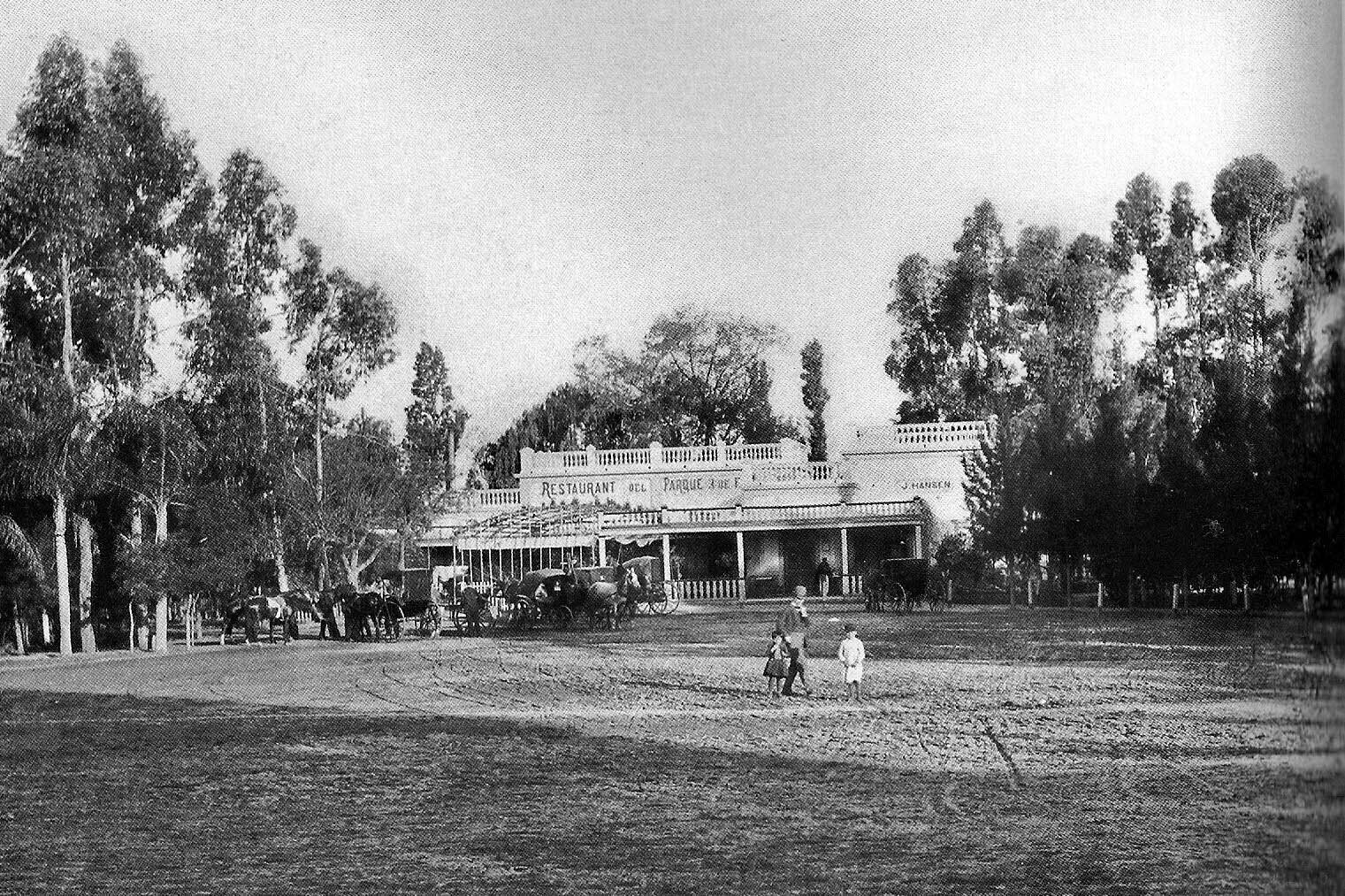 The famous "Café de Hansen" (also named "Lo de Hansen"), a famous Argentine restaurant by German immigrant Juan Hansen. The restaurant was considered a pioneer of tango music in Buenos Aires. Located in Parque 3 de Febrero of Palermo, Buenos Aires, the building remained there until it was demolished in 1912.